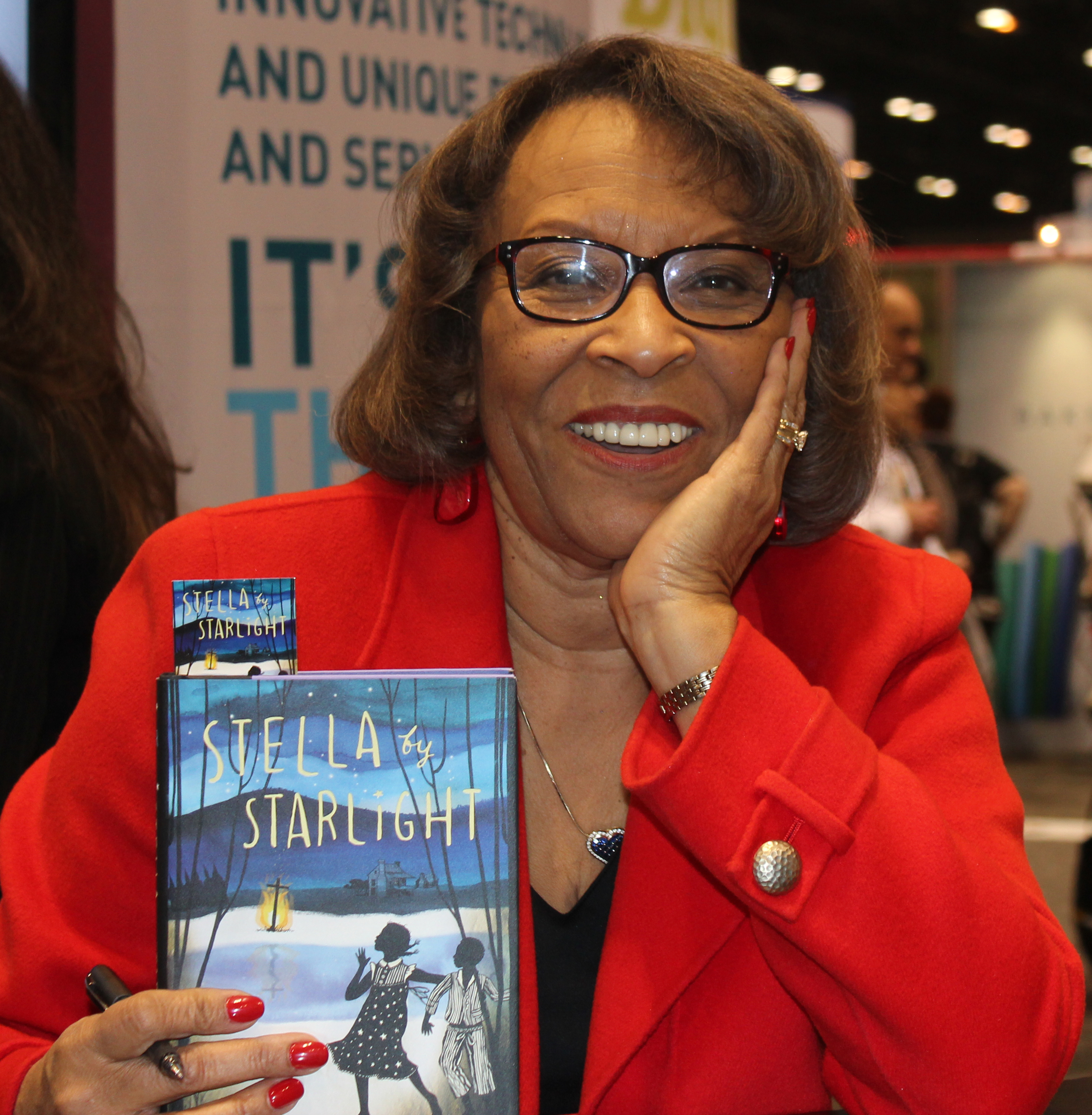 Sharon Draper, an American teacher and writer.